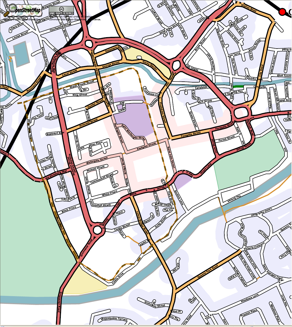 This map may be incomplete, and may contain errors. Don't rely solely on it for navigation.